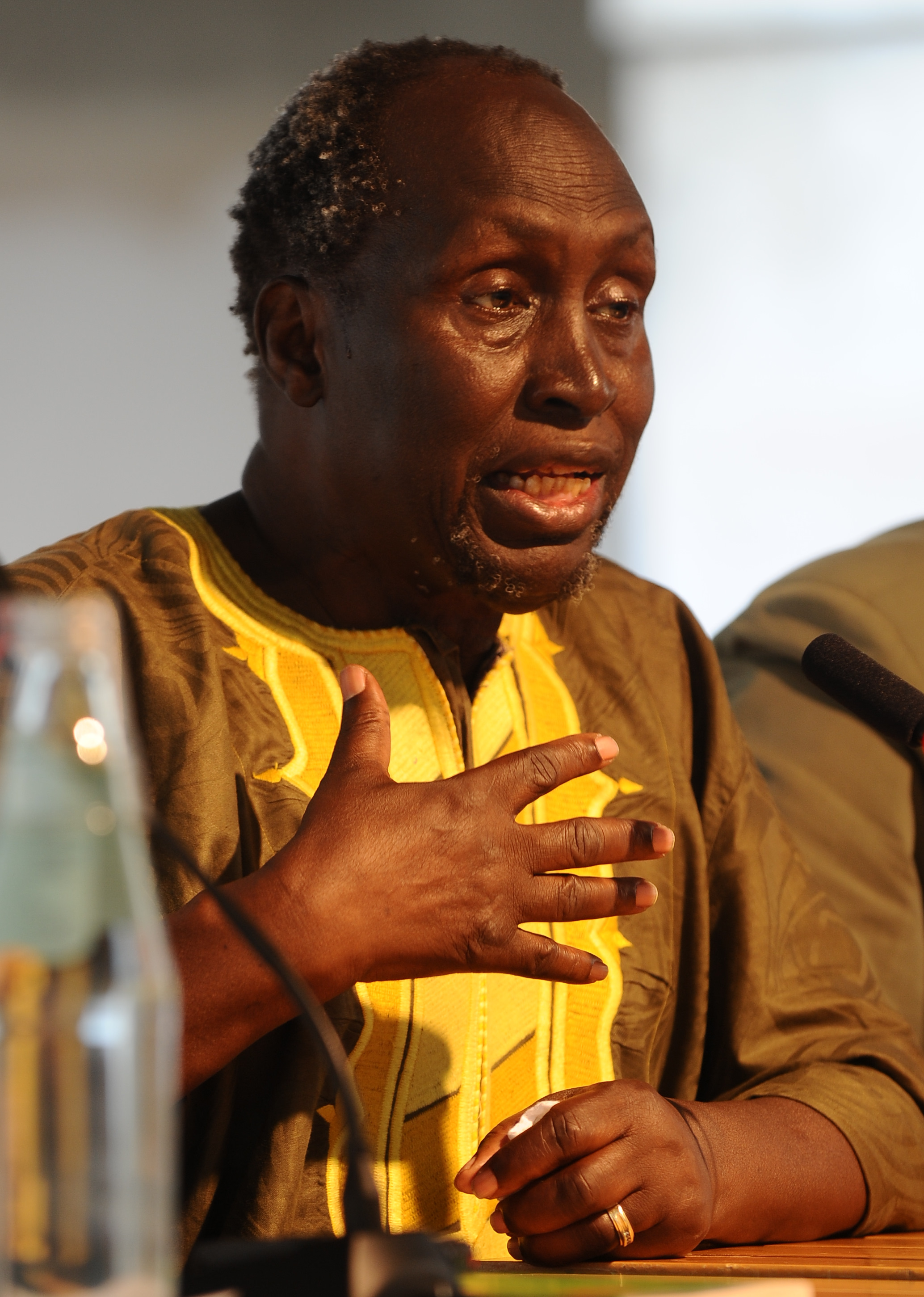 Kenyan writer Ngugi wa Thiong'o at the Festivaletteratura 2012 in Mantua, Italy